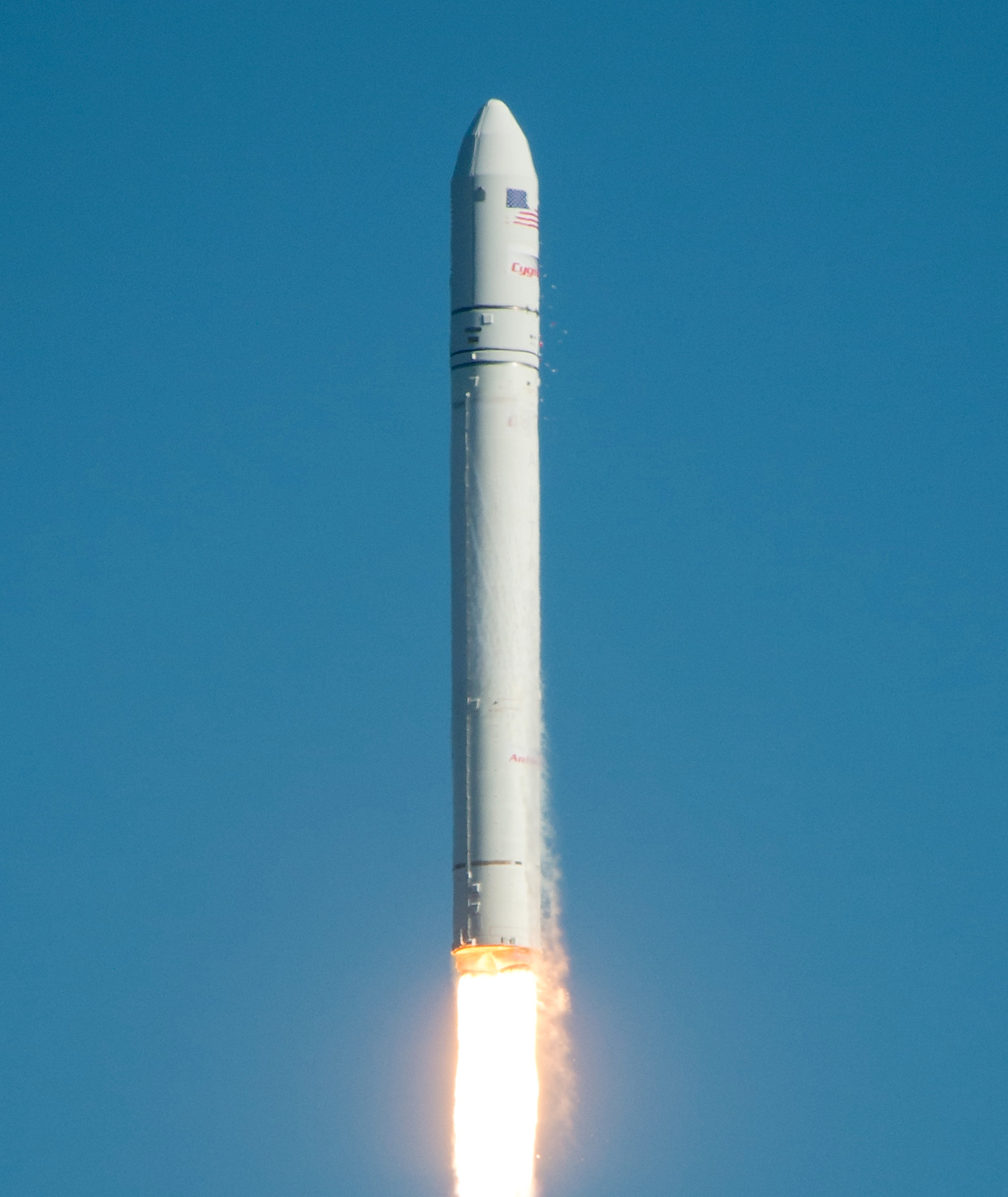 The Orbital Sciences Corporation Antares rocket is seen as it launches from Pad-0A of the Mid-Atlantic Regional Spaceport (MARS) at the NASA Wallops Flight Facility in Virginia, Sunday, April 21, 2013. The test launch marked the first flight of Antares and the first rocket launch from Pad-0A. The Antares rocket delivered the equivalent mass of a spacecraft, a so-called mass simulated payload, into Earth's orbit.